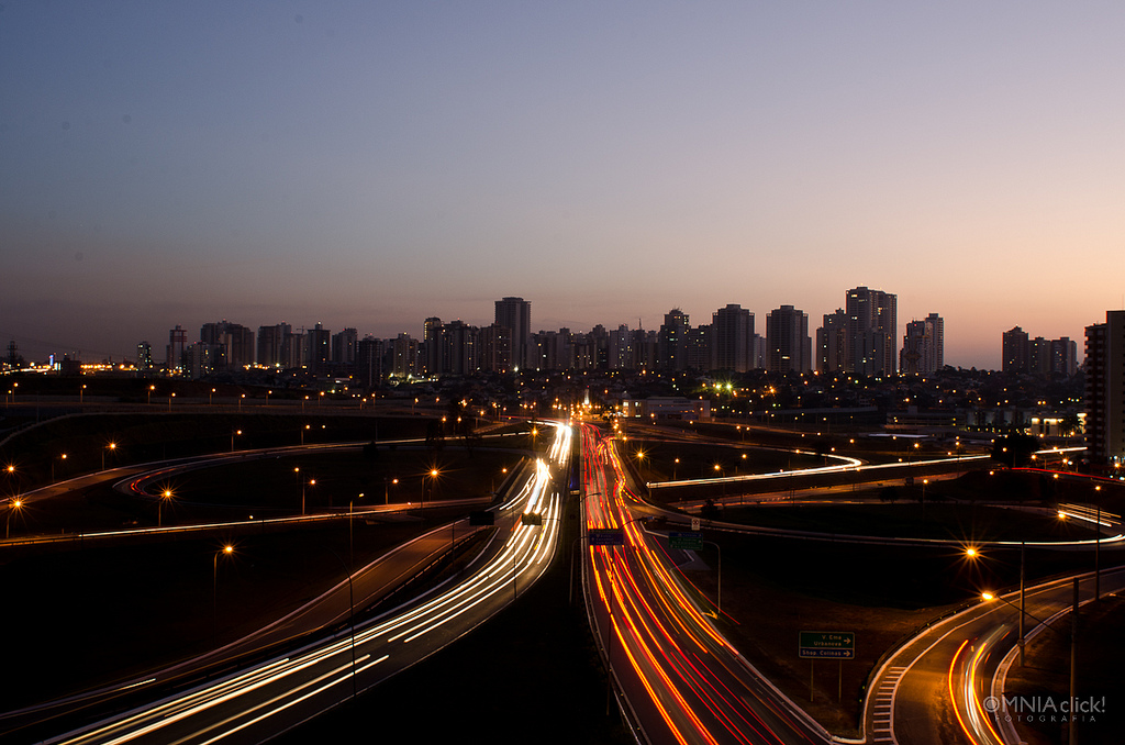 Partial nocturn view of São José dos Campos, São Paulo, Brazil.